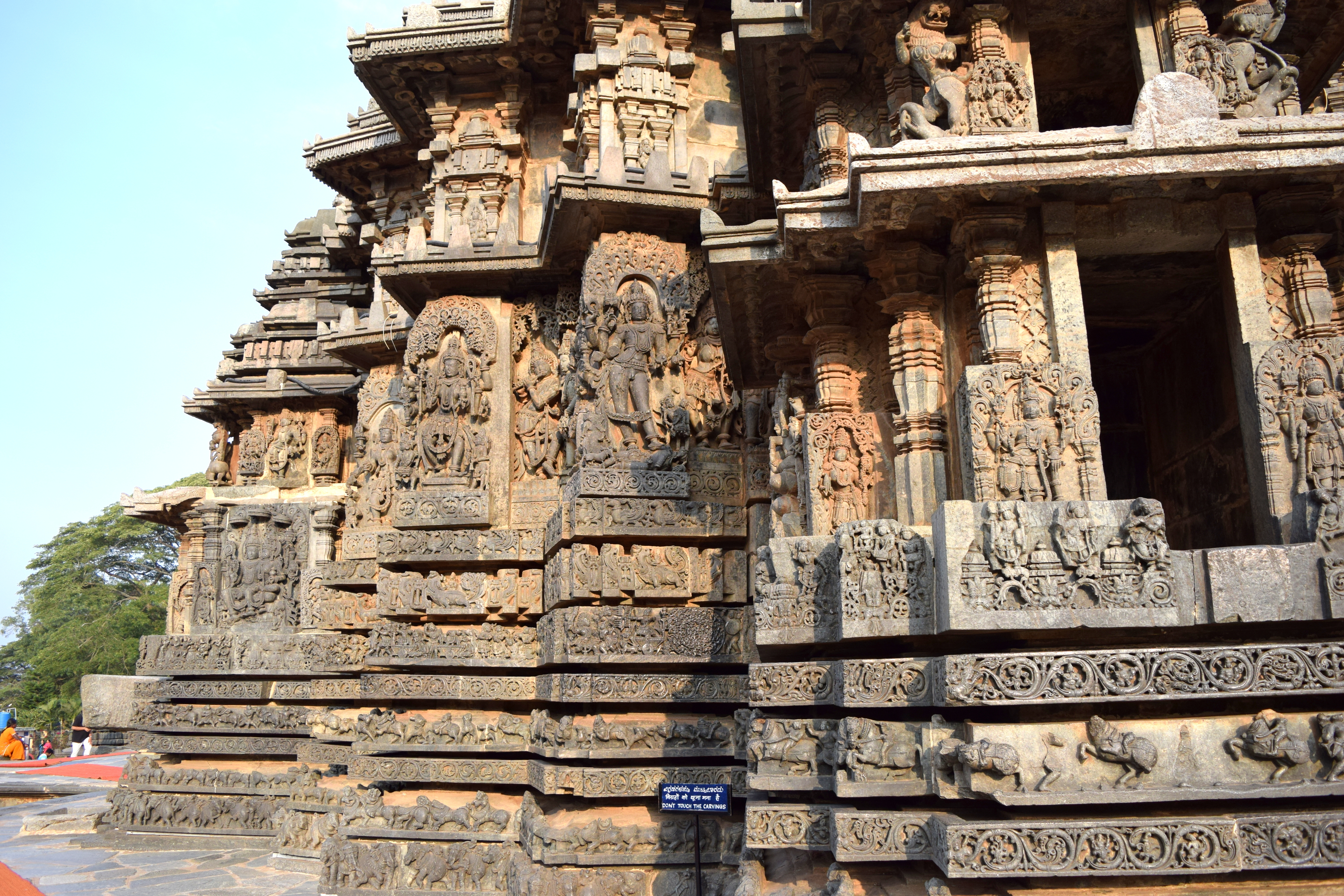 Hoysalesvara Temple